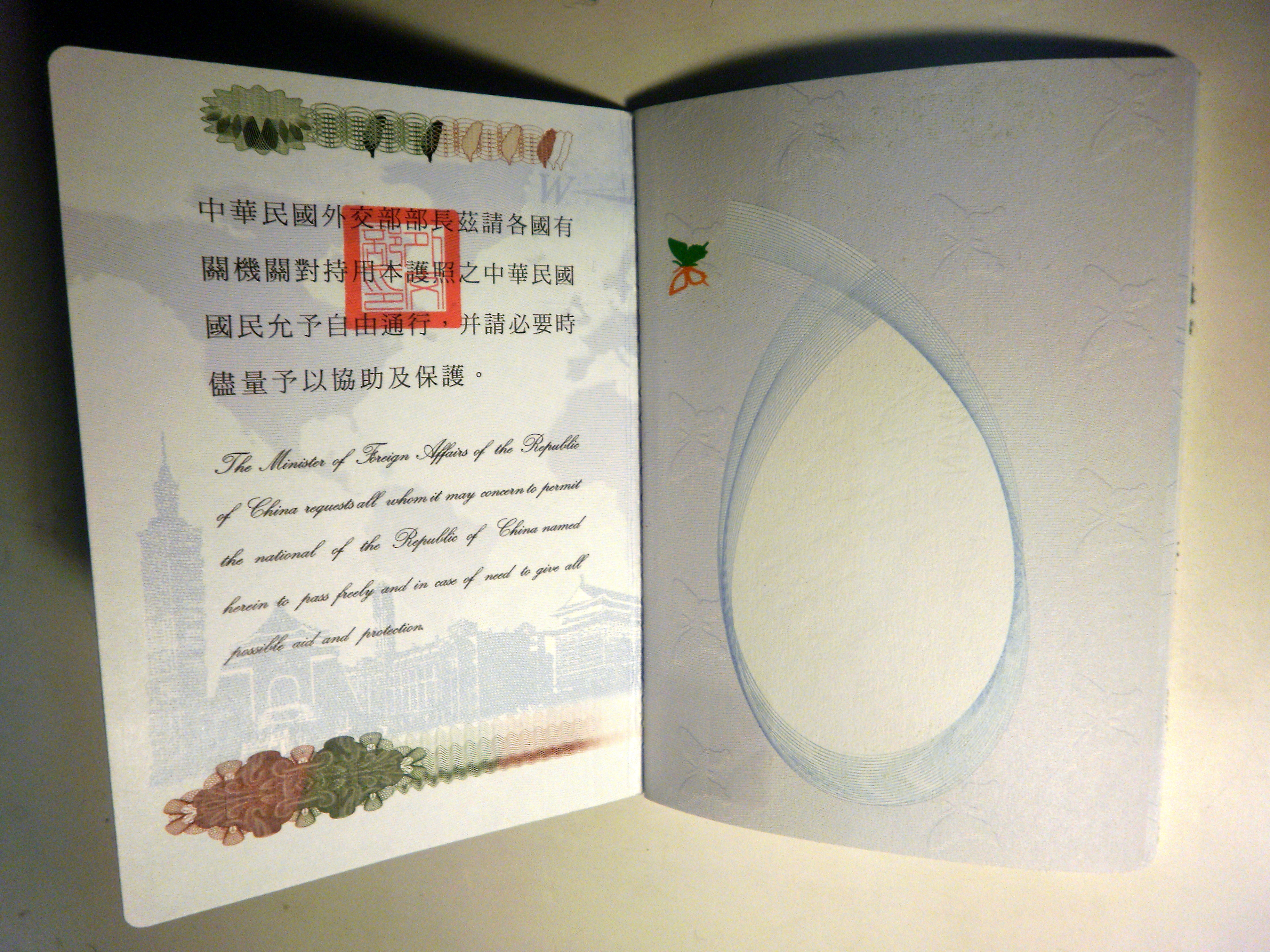 The Passport Note Page of the Republic of China (Taiwan) Passport